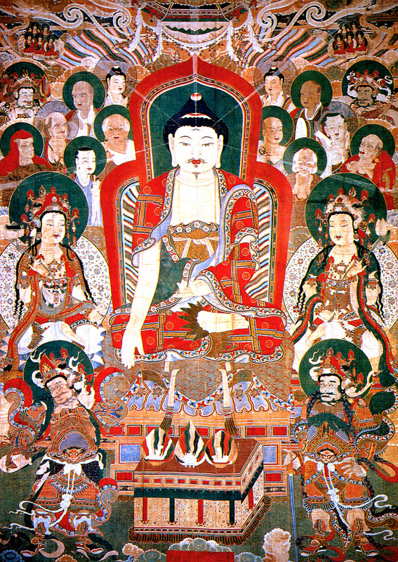 A hanging scroll painting depicting the Vulture Peak Assembly of the Lotus Sutra, National Treasure of South Korea 301.